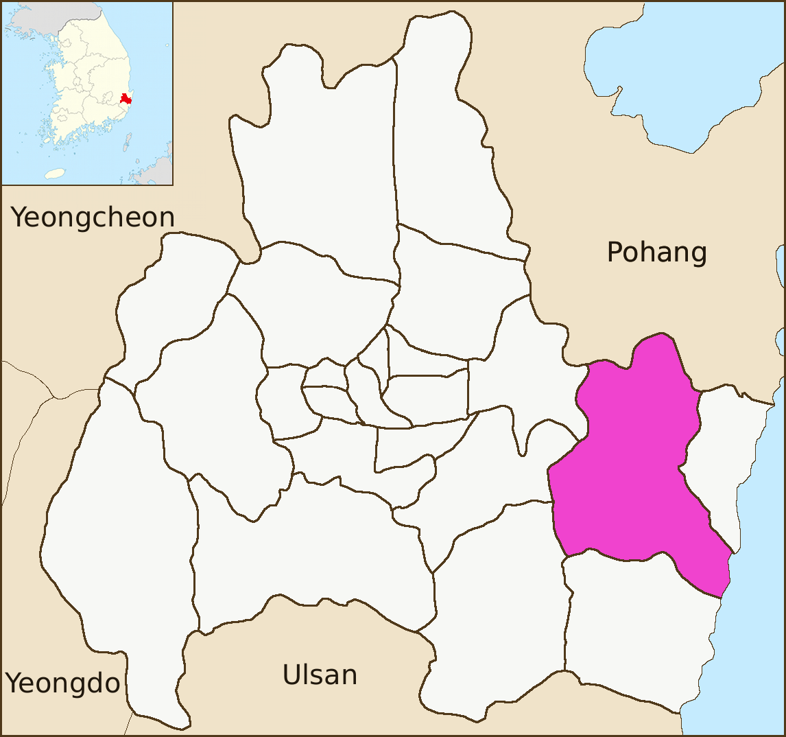 Map of Yangbuk-myeon, an administrative division of Gyeongju, South Korea. Created by User:Visviva, redrawn by Kokiri